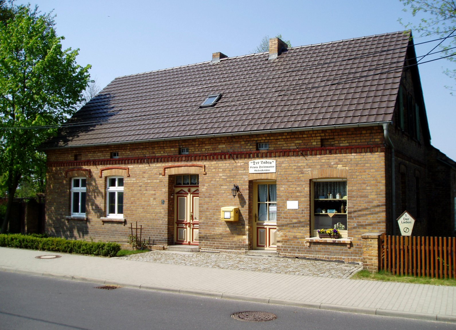 General store at Bohsdorf, Lausitz, Germany, museum